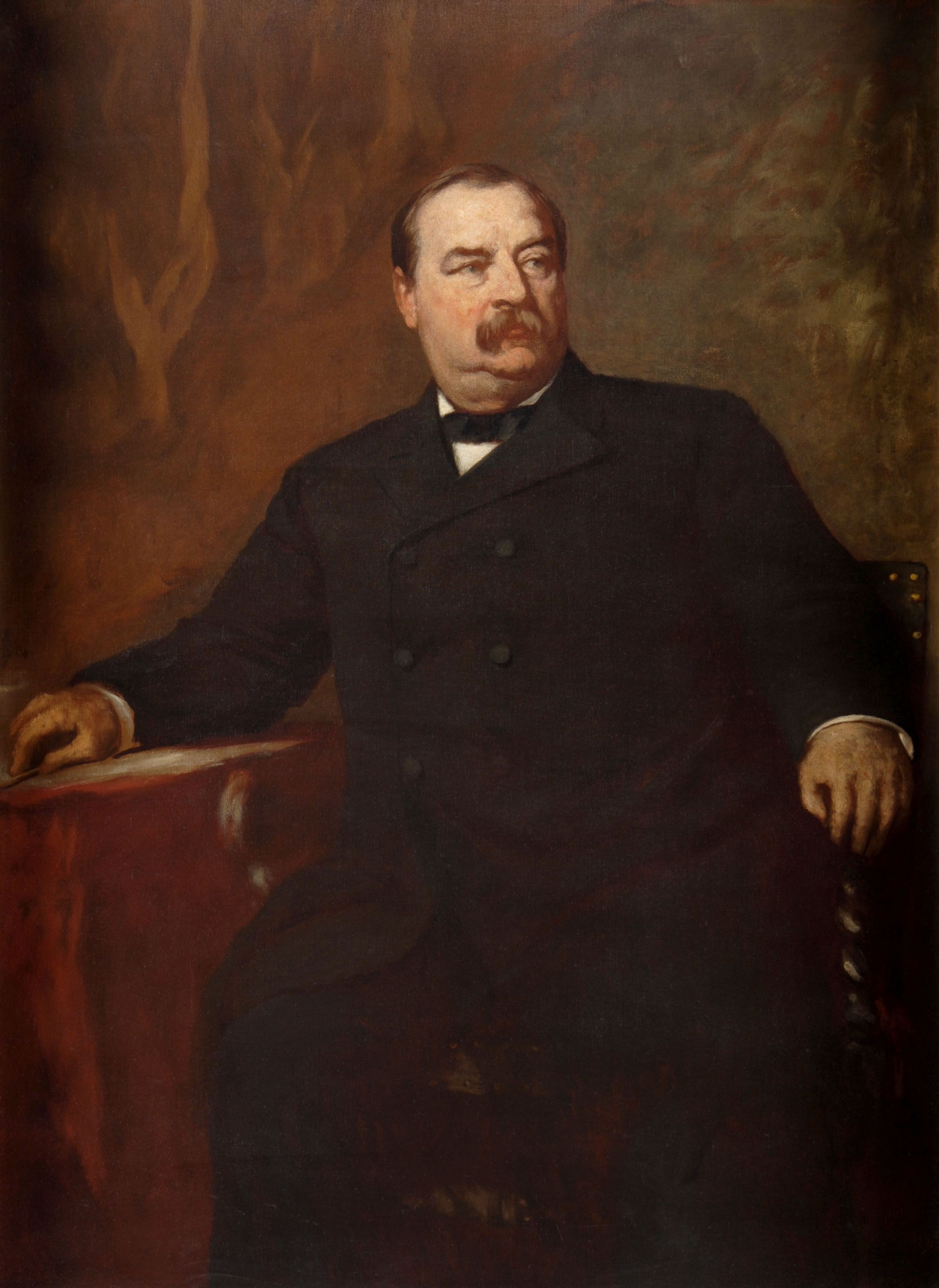 Official Gubernatorial portrait of New York Governor (and U.S. President) Grover Cleveland.